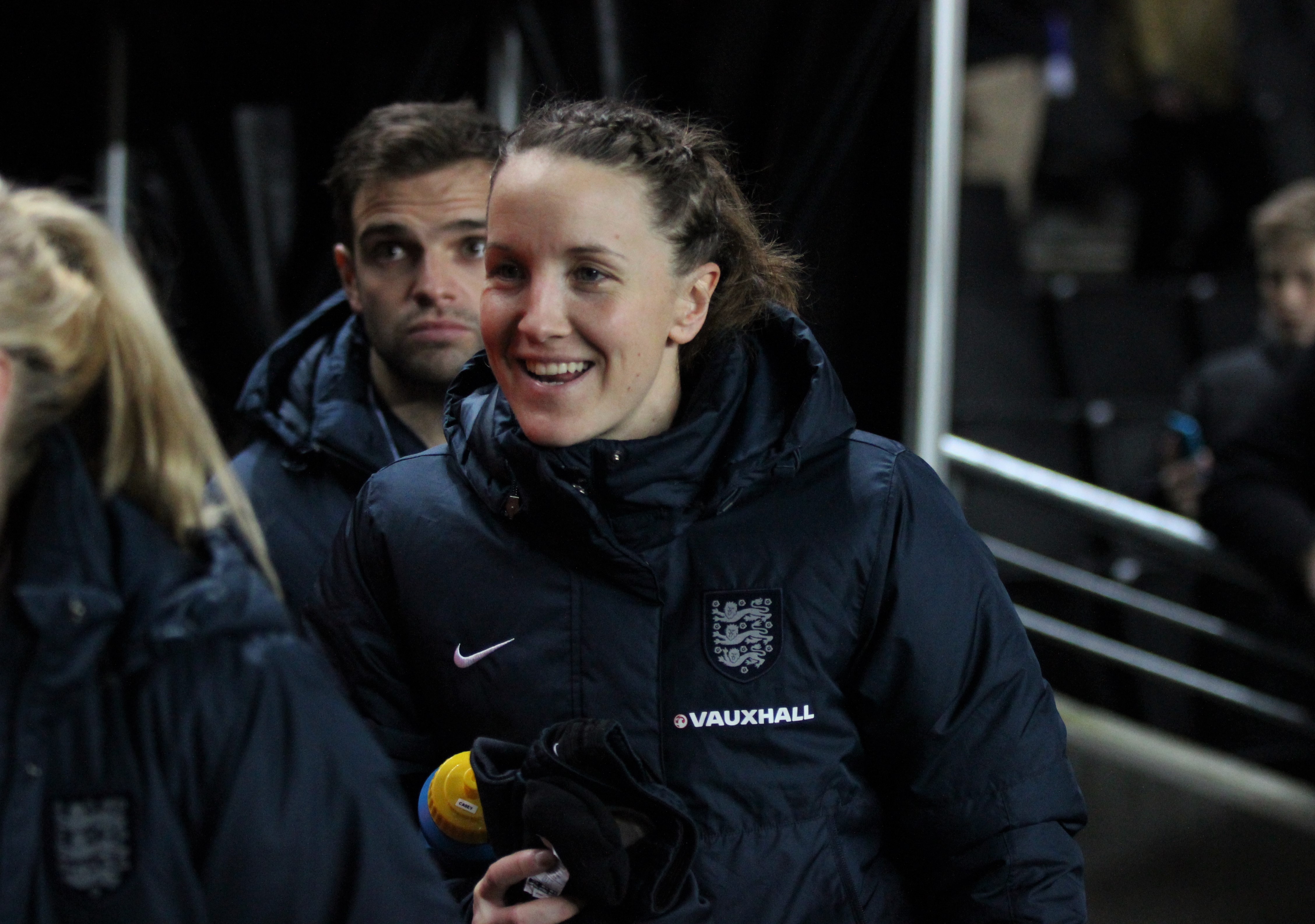 Casey Stoney of England Women's before the international friendly against USA.